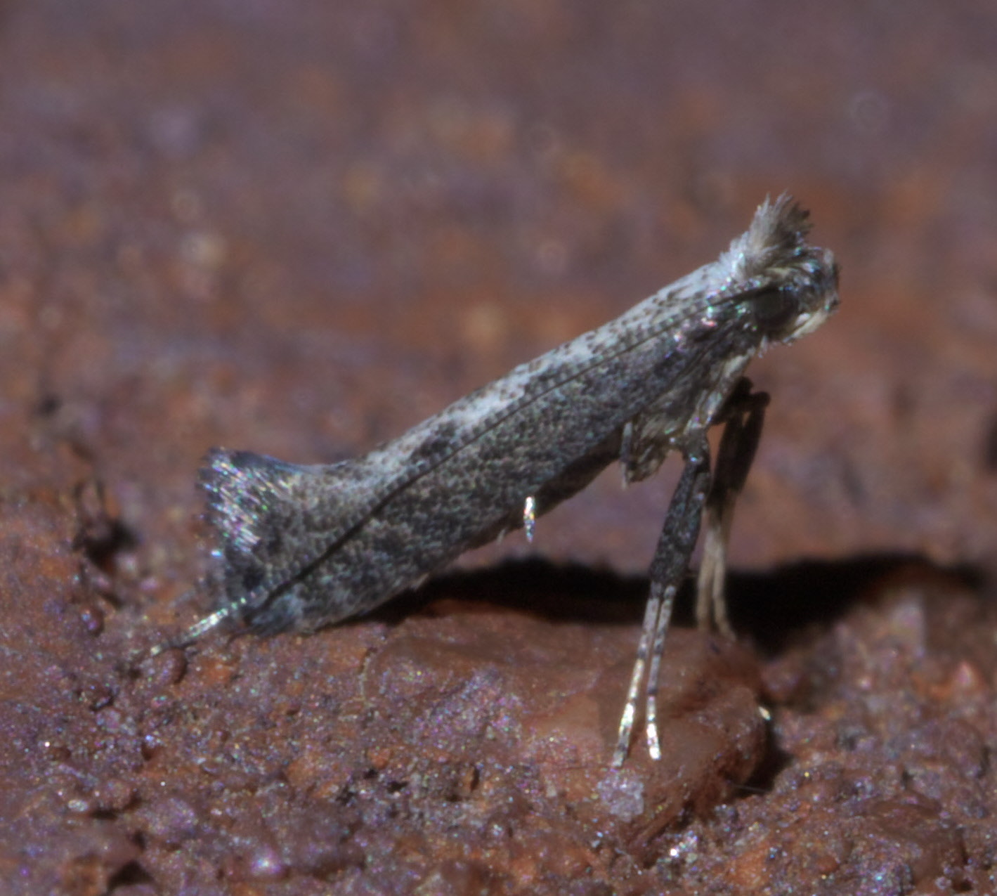 Parornix, Family: Leaf Blotch Miner Moths, Size: 3.6 mm, ID Confidence: 98